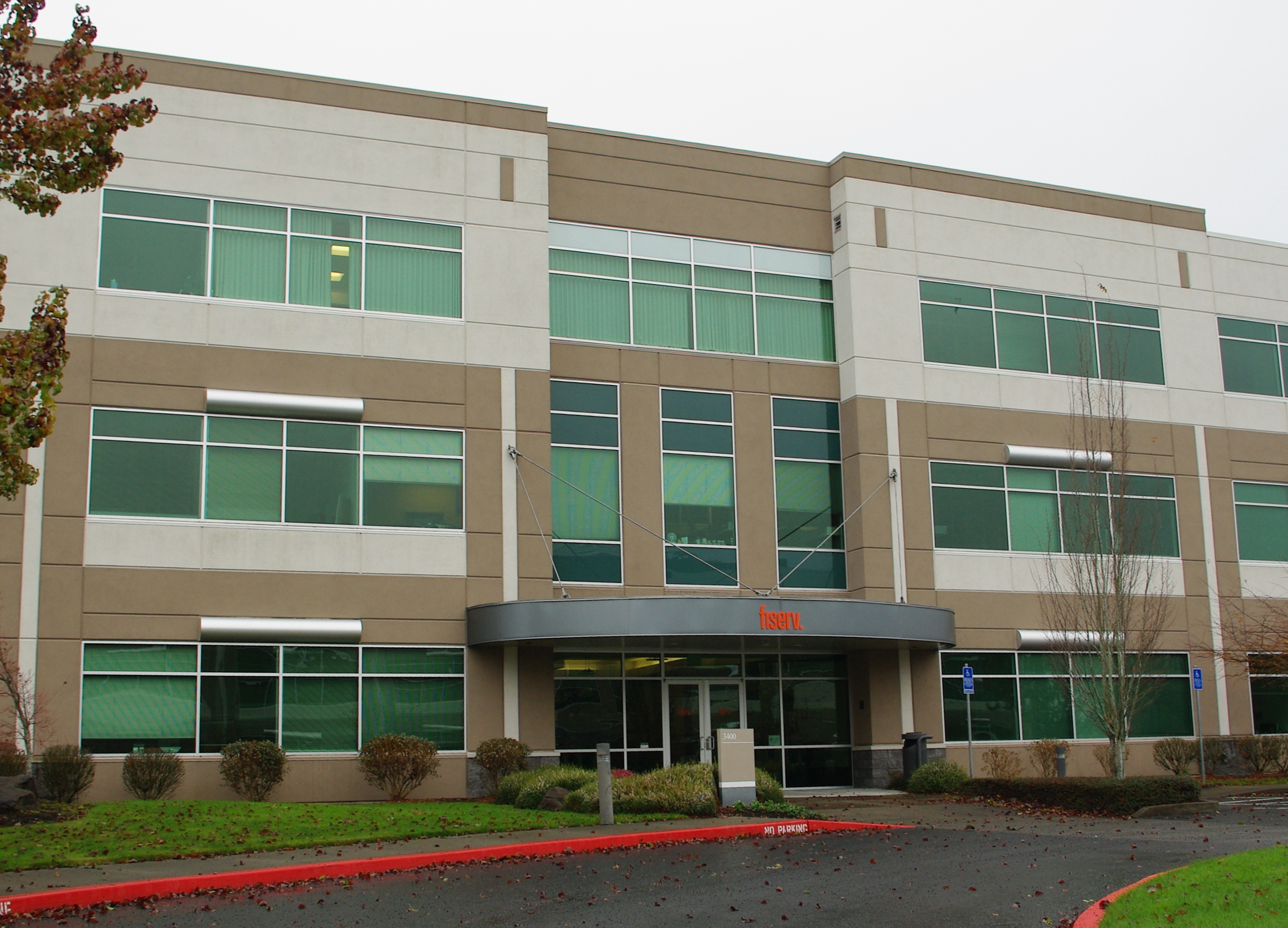 fiserv offices in Hillsboro, Oregon.